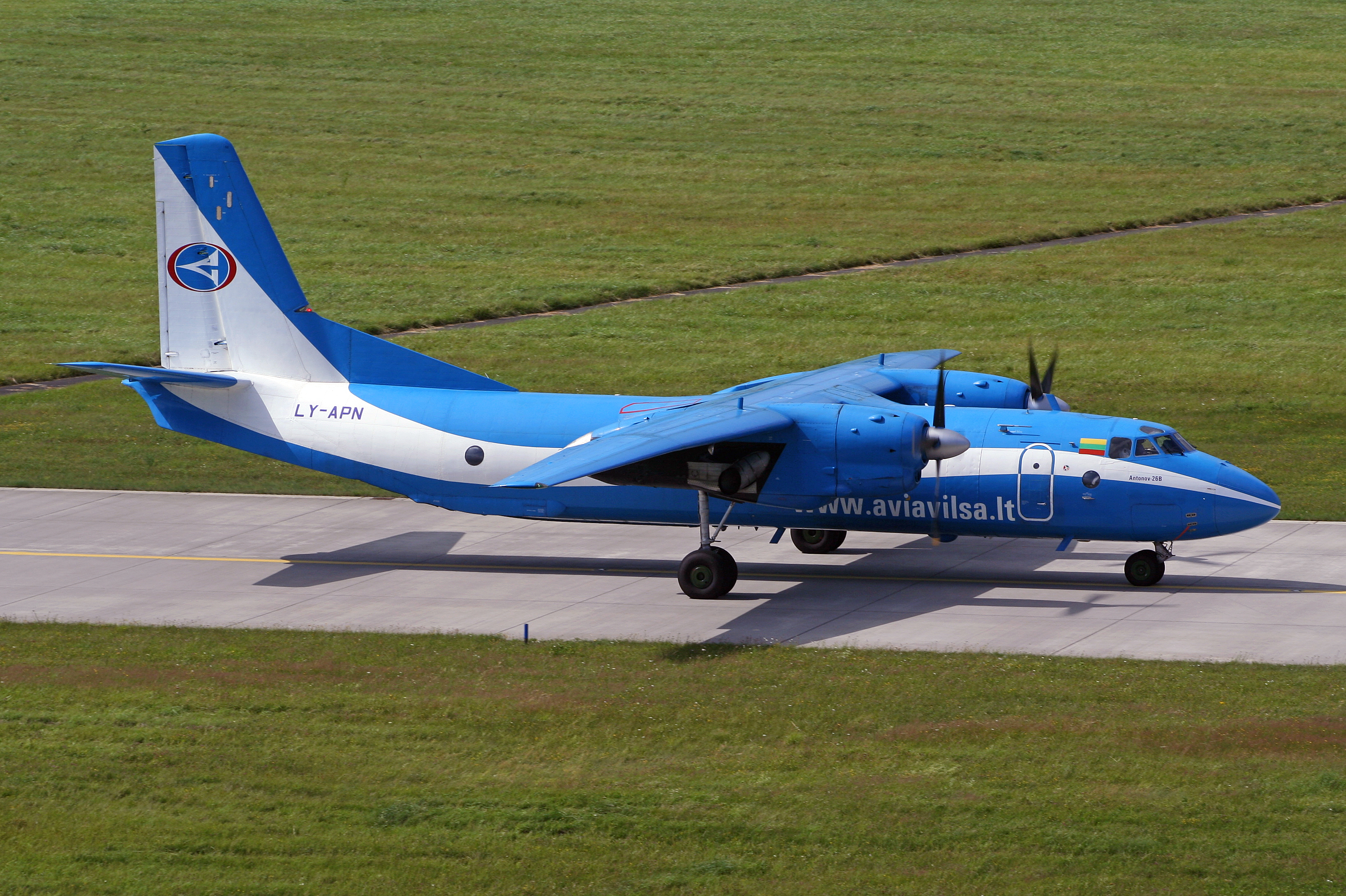 Aviavilsa Antonov An-26 at Hanover/Langenhagen International Airport